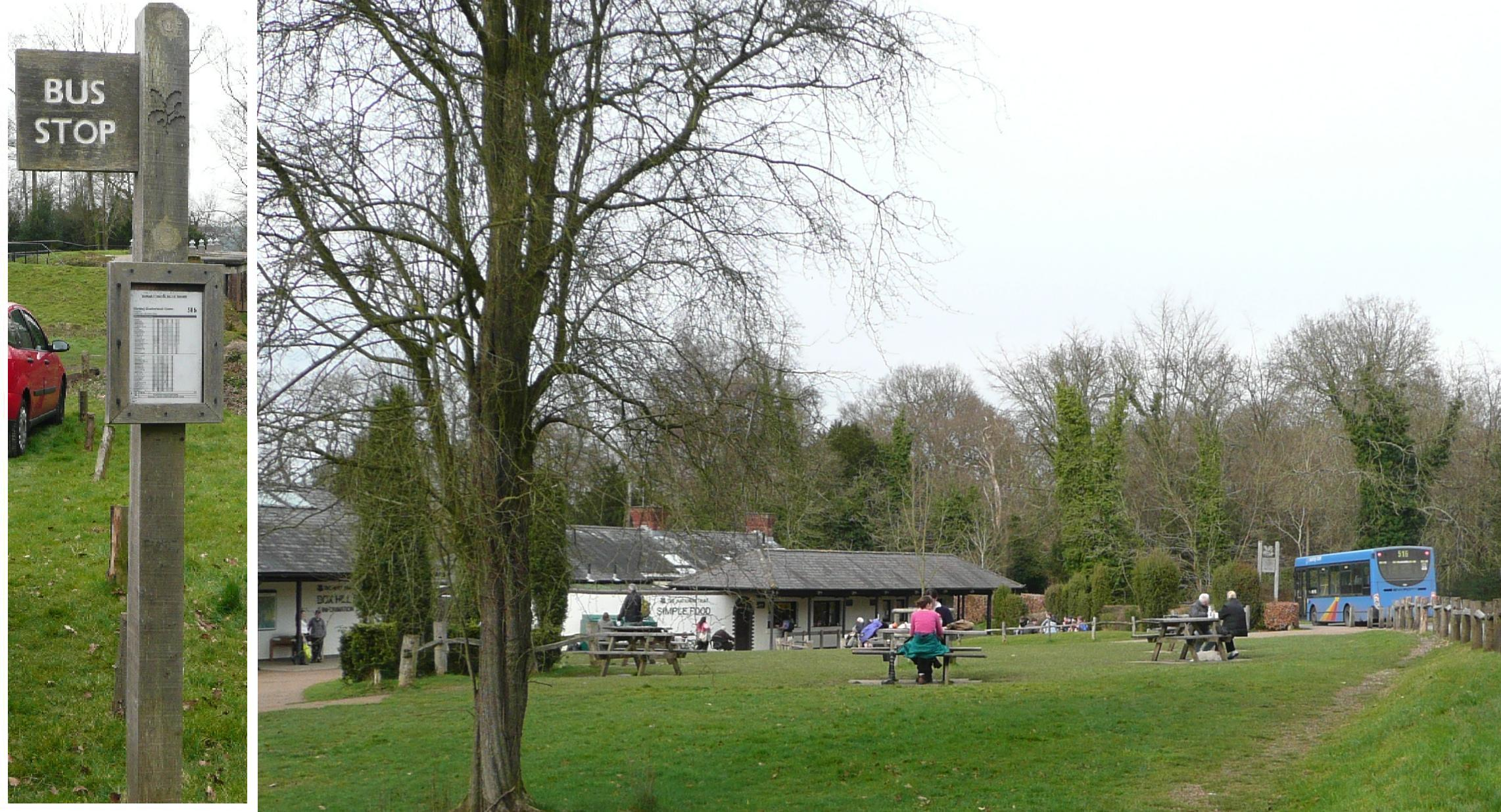 A Sunray Travel bus on Box Hill, near Dorking, Surrey.